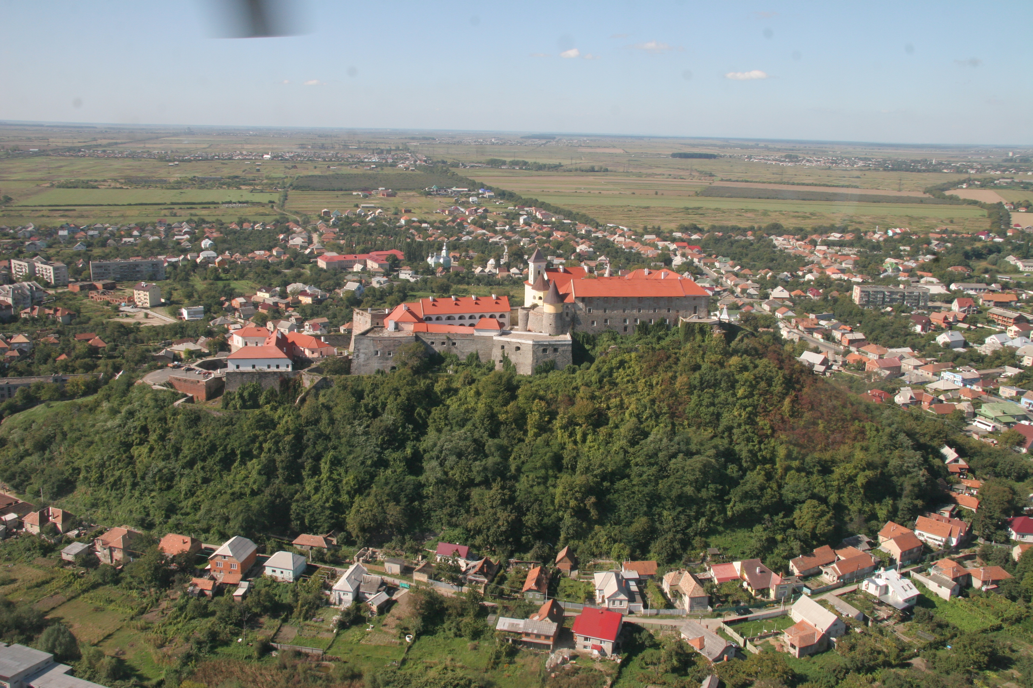 Вигляд із сходу.